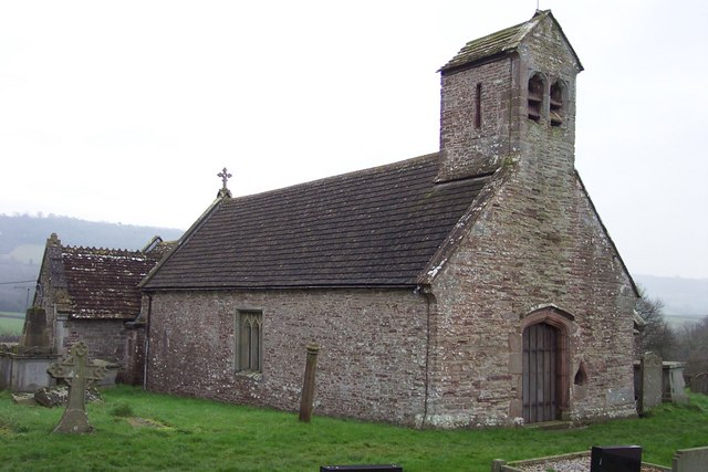 Very small ancient church at Llangovan